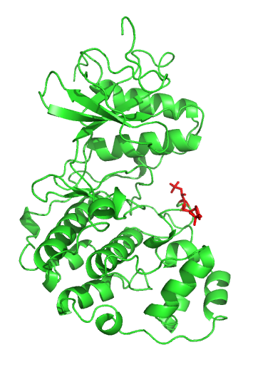 X-ray structure of an active ERK2 kinase. The phosphorylated threonine any tyrosine residues are highlighted in red. Based on the pdb file 2ERK.